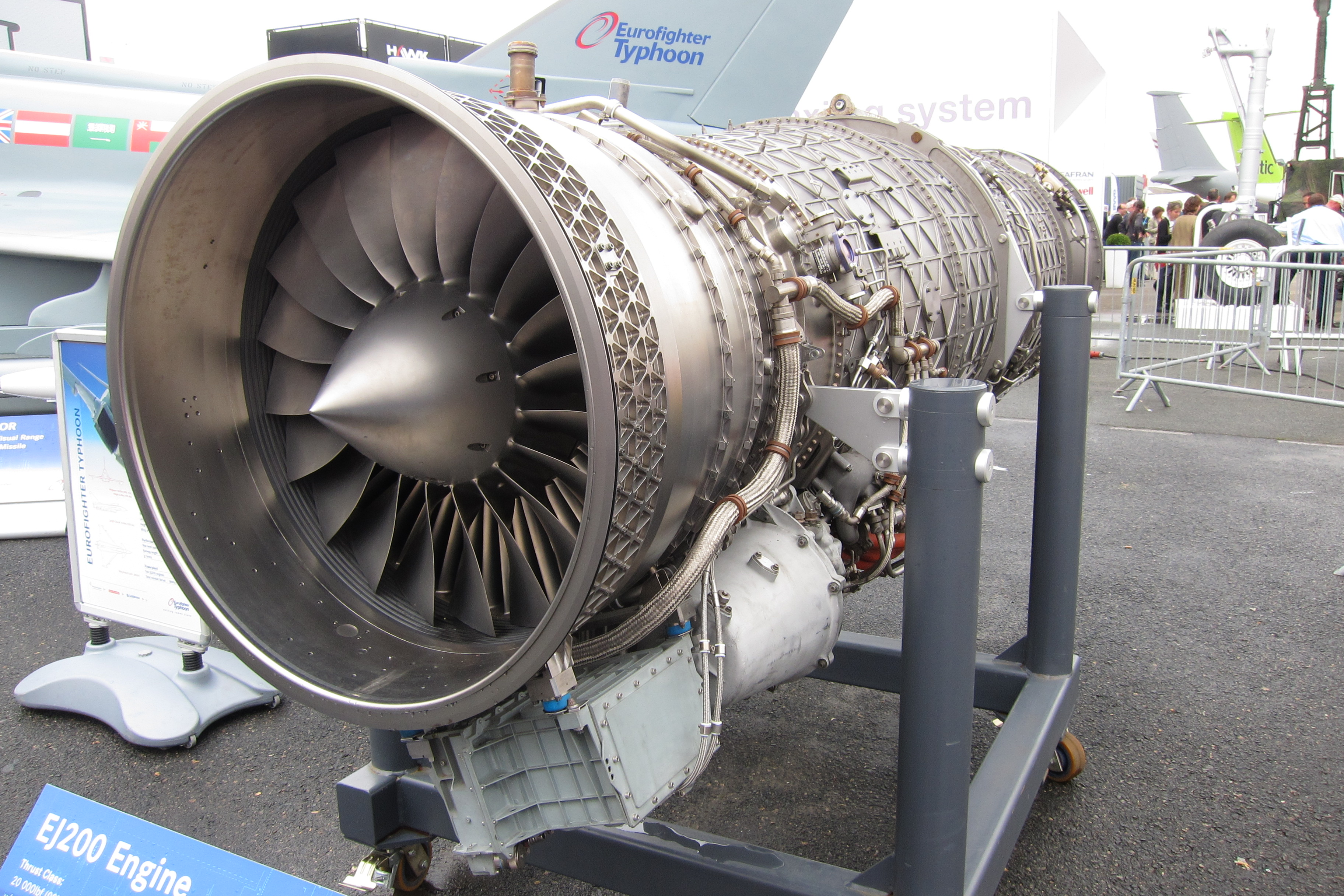 An Eurojet EJ200 turbofan on display at the Paris Air Show 2013